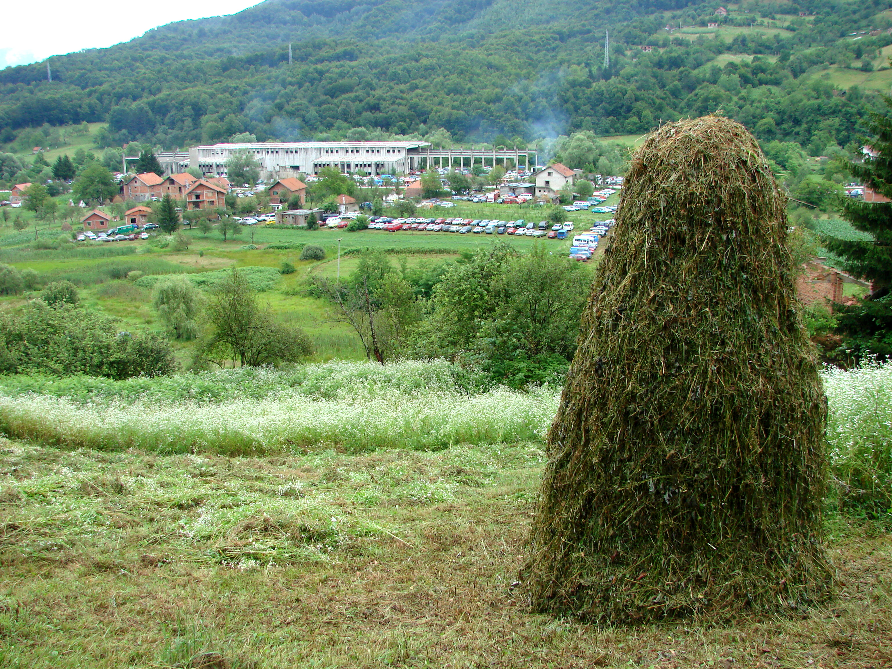 Countryside around Potocari, near Srebrenica, Bosnia and Herzegovina. July 2007. Building in the far distance is the battery factory where Muslim men were detained, tortured, and killed during the Srebrenica massacre of July 1995.